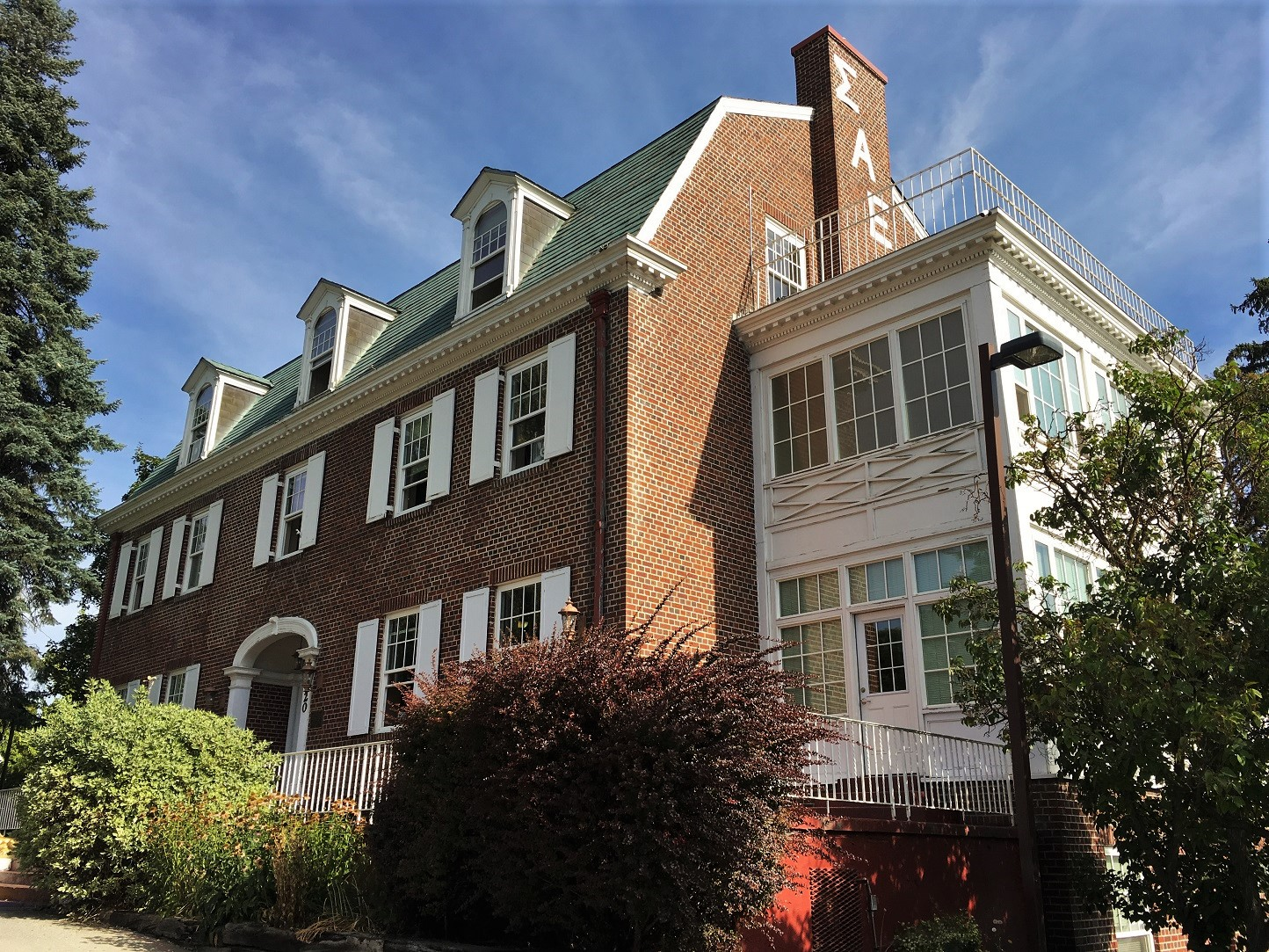 Sigma Alpha Epsilon Fraternity House Located at the eastern environs of the University of Idaho, this Site continues in its historic role.